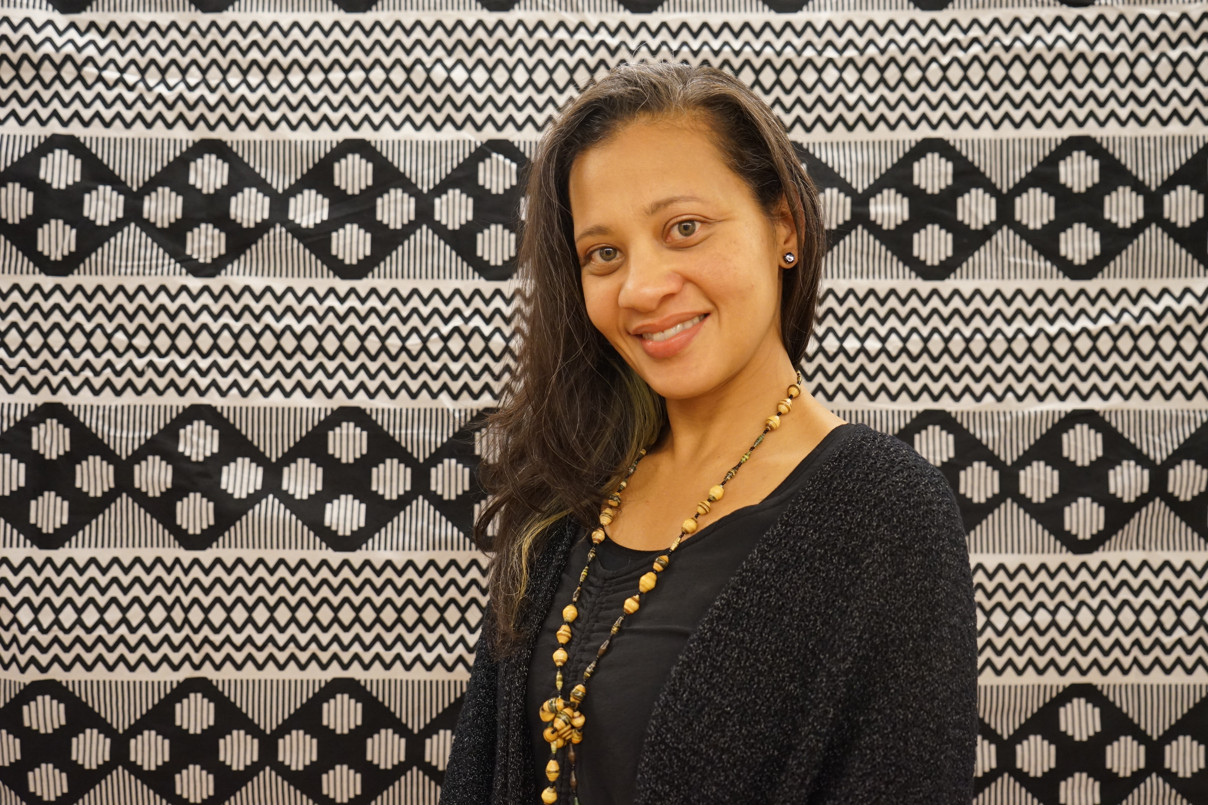 Brooklyn based artist